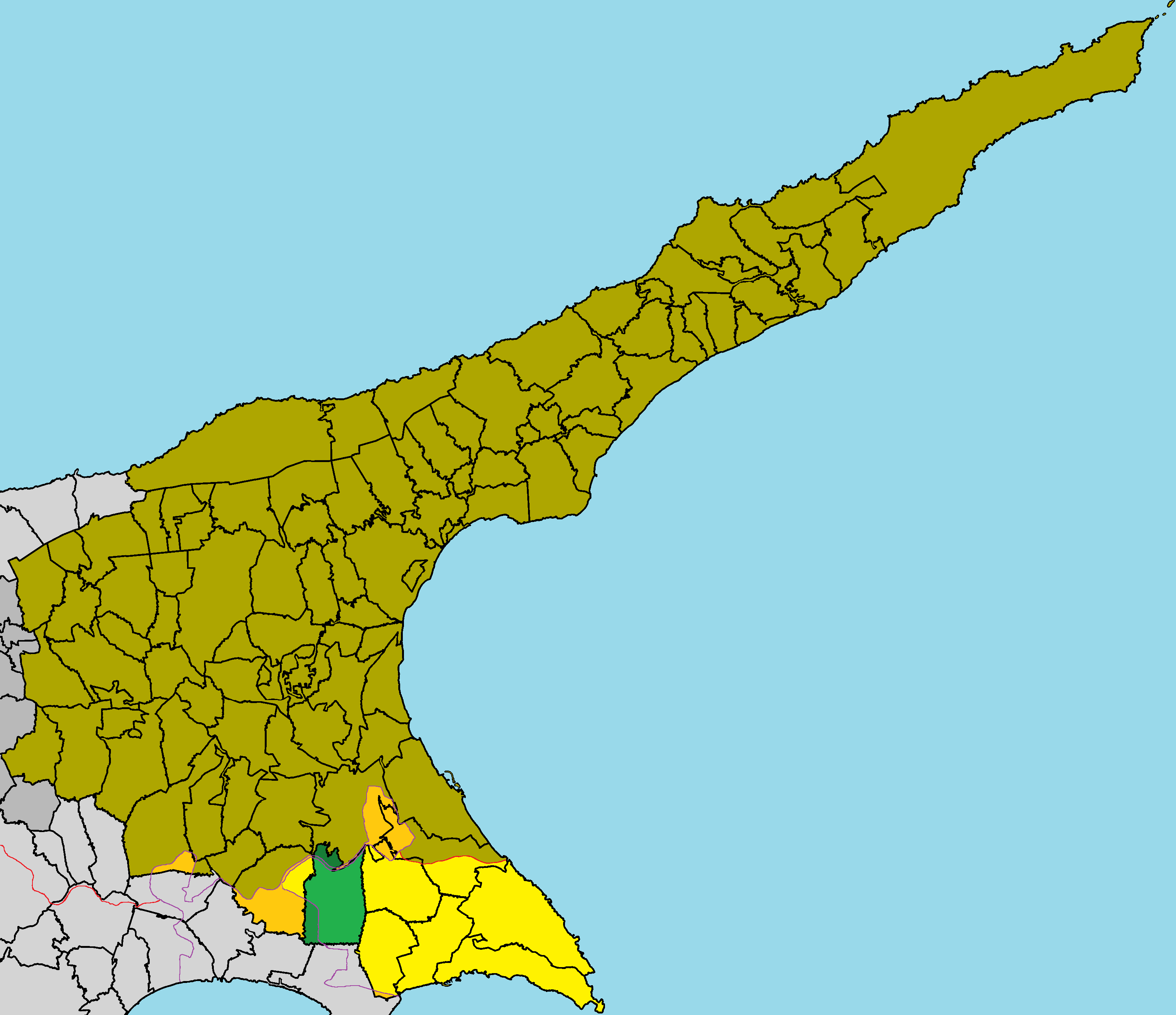 Avgorou in Famagusta District.